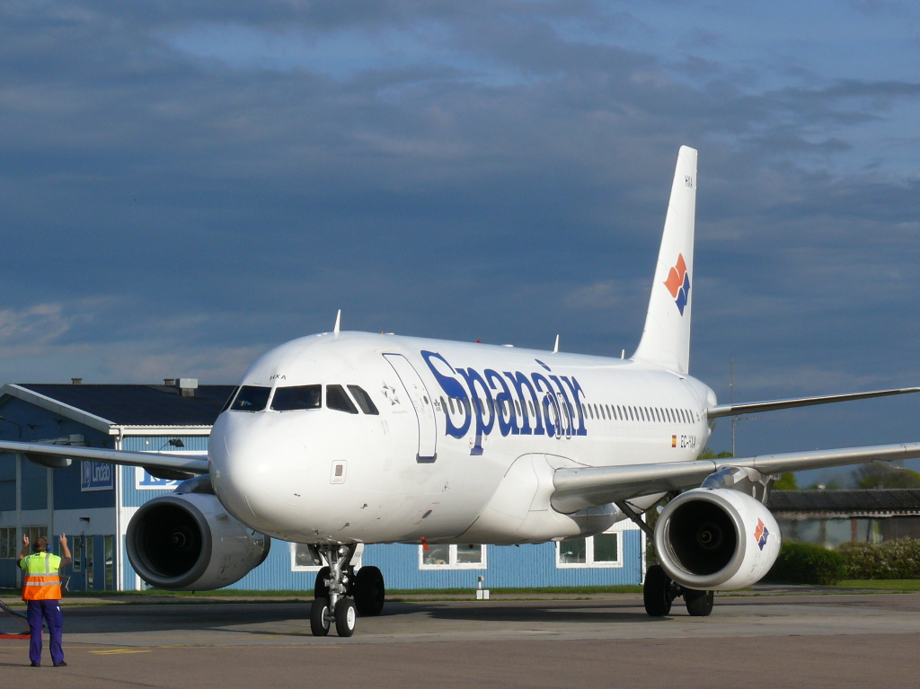 The first flight of Spanair to Ängelholm airport is taxiing to its parking position. (EC-HXA)